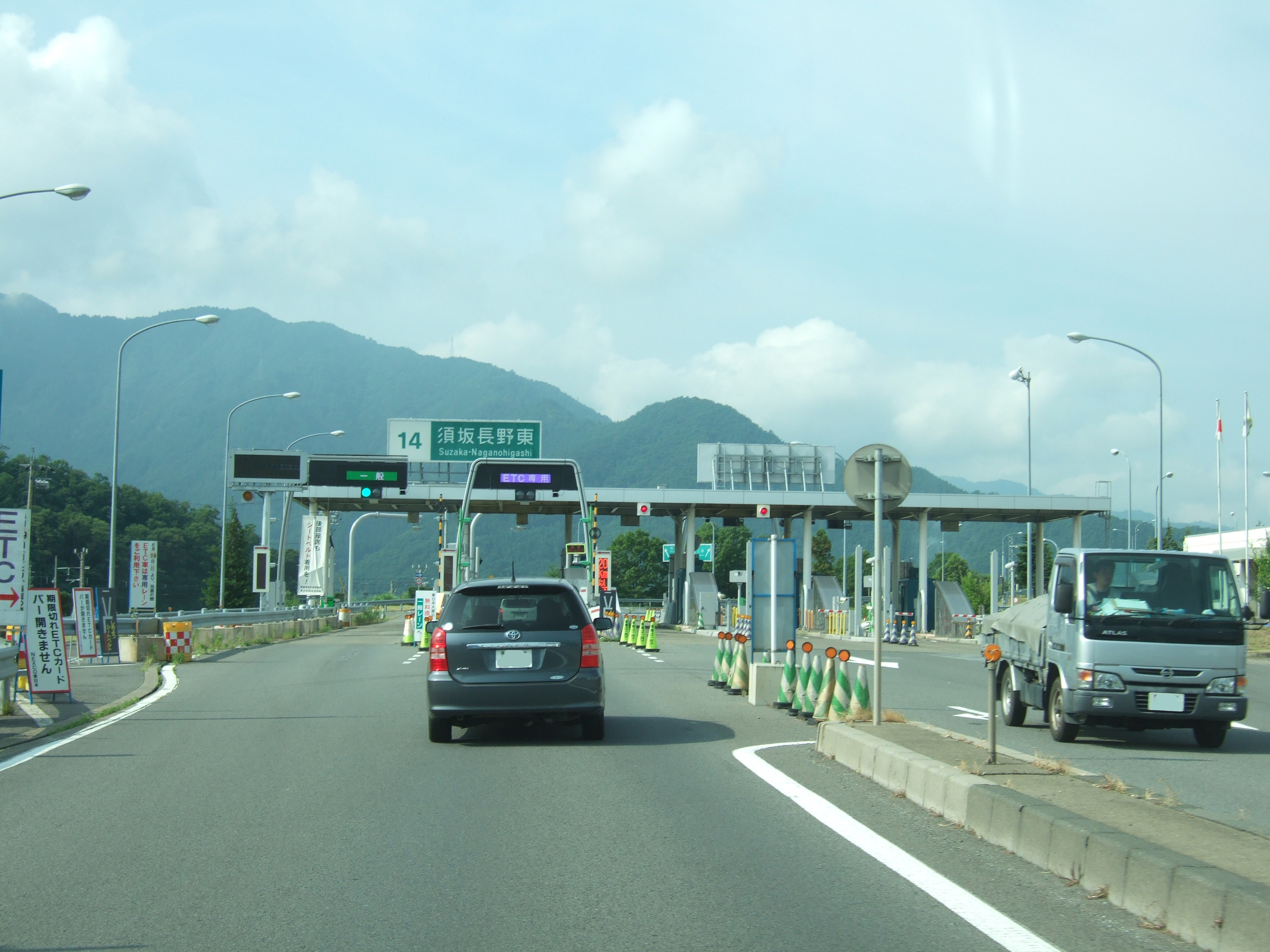 Toll gates at Suzaka-Naganohigashi Interchange